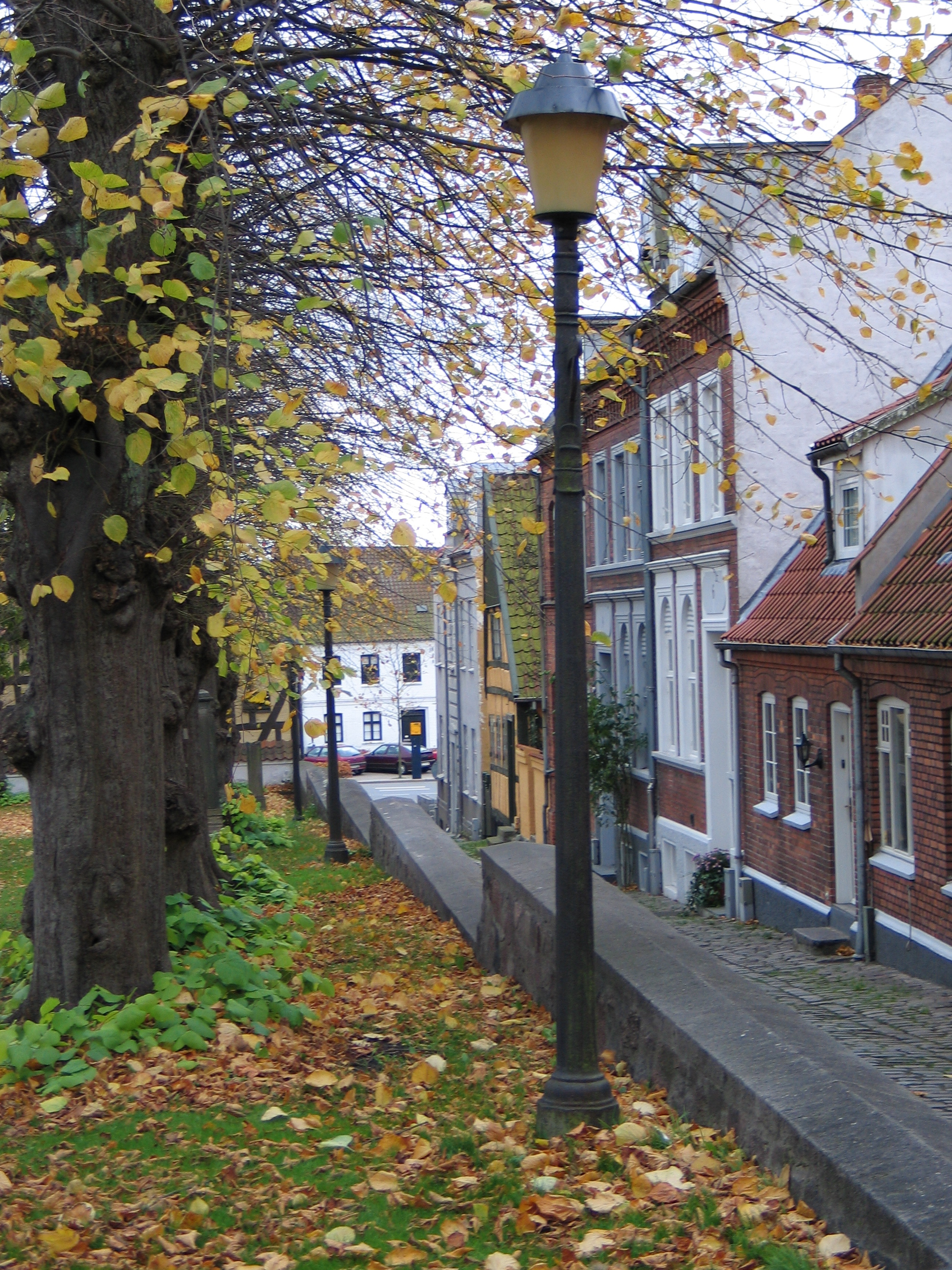 Street in the old part of Horsens, Denmark. Photograph by Carsten Lund Thomsen